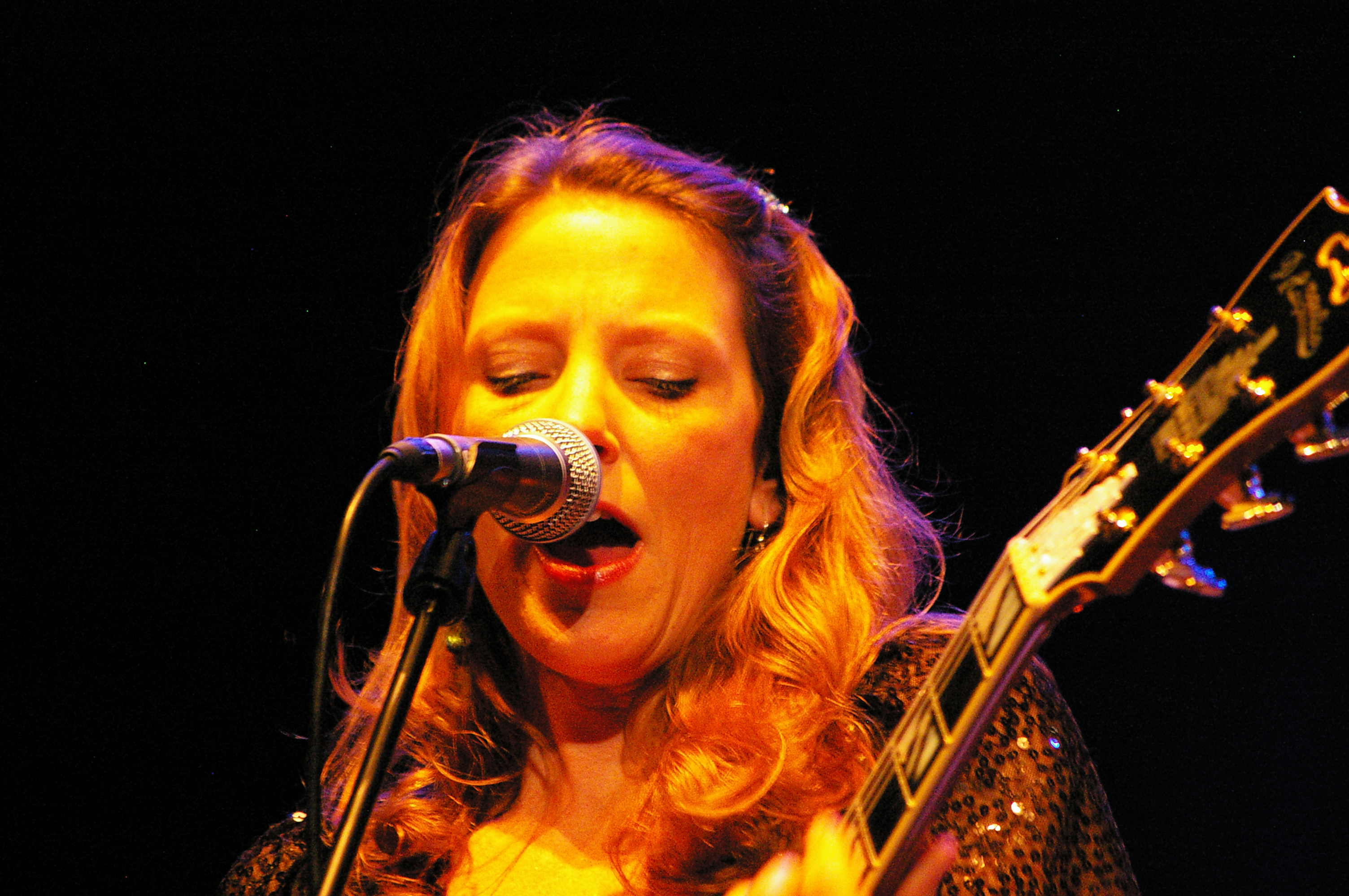 Susan Tedeschi Live